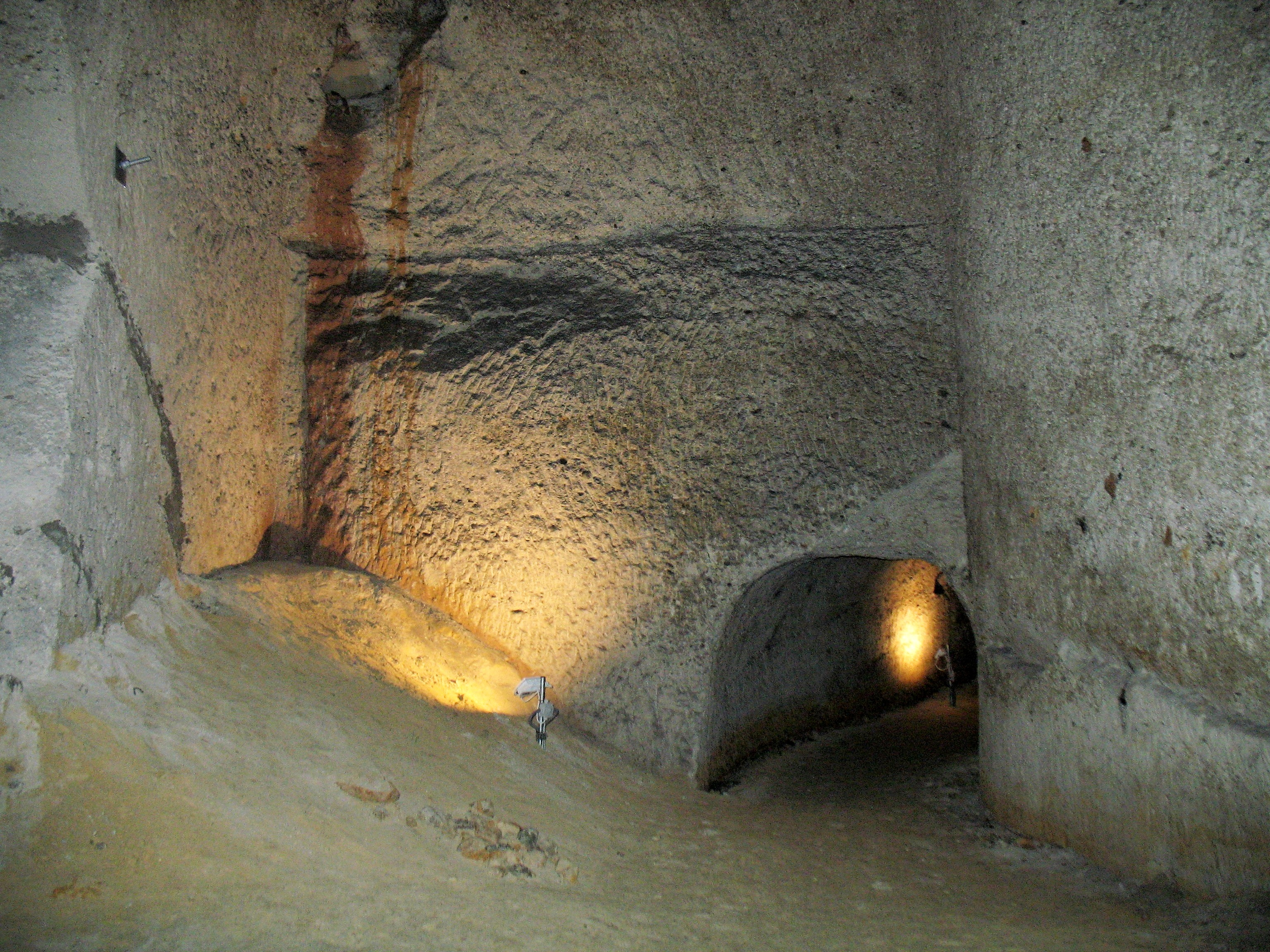 China-clay mine in Nevřeň, Plzeň-North District, Czech Republic